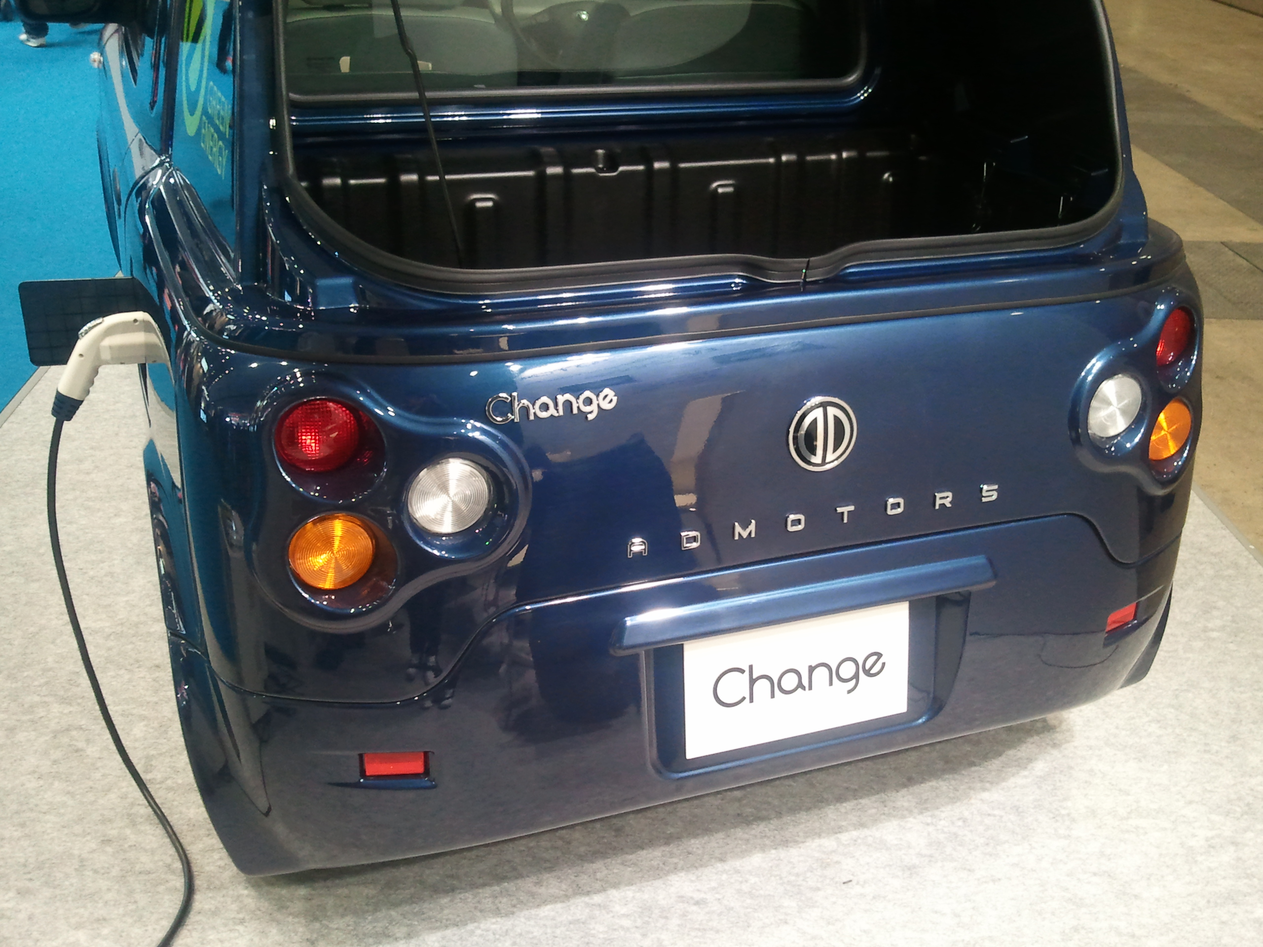 AD Motors Change Electric Vehicle photographed at the Tokyo Motor Show 2011.